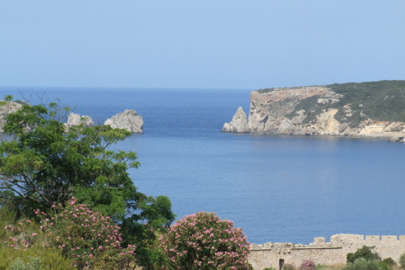 Entry into the bay of Navarino